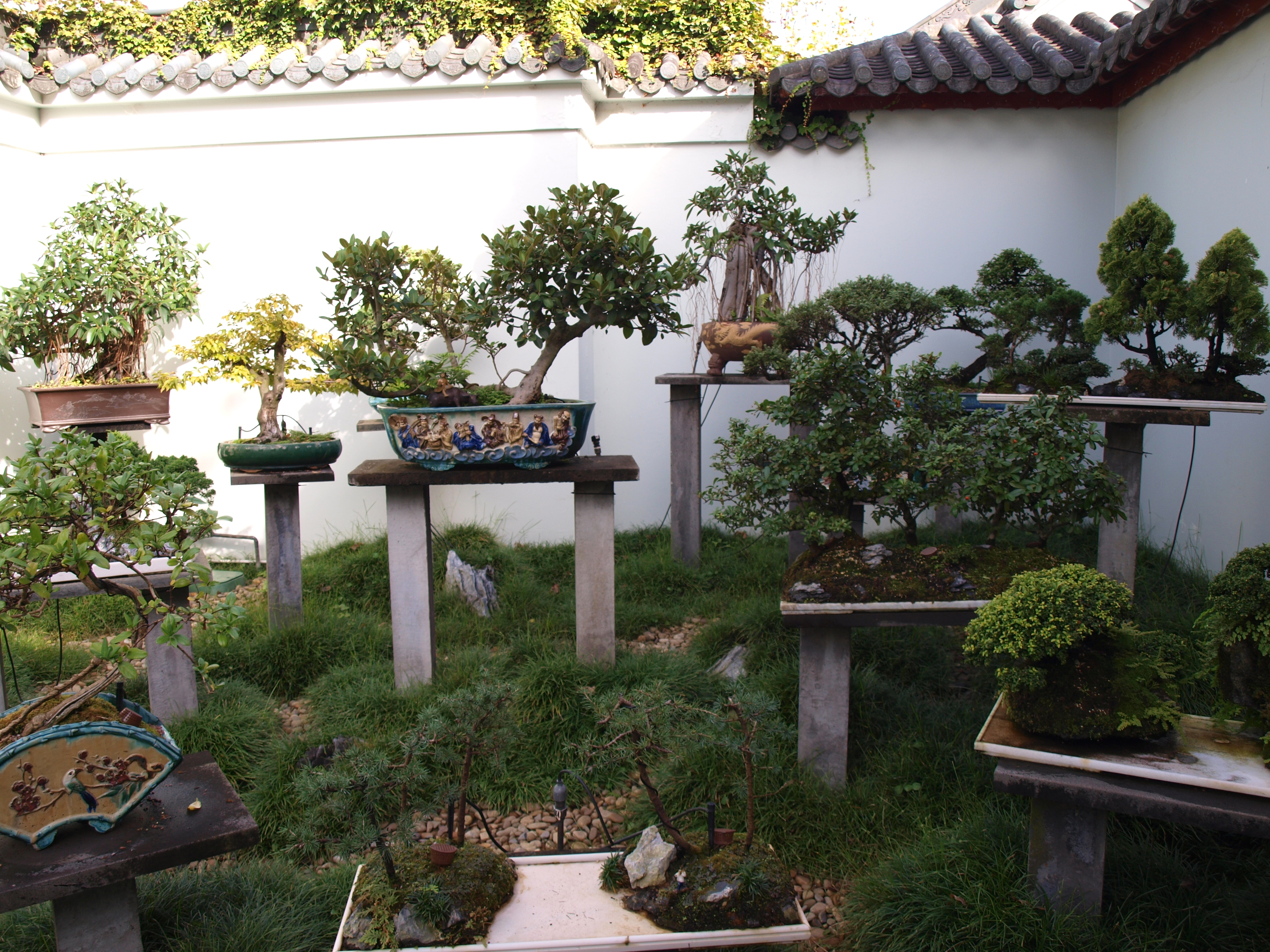 Chinese Garden of Friendship, Sydney